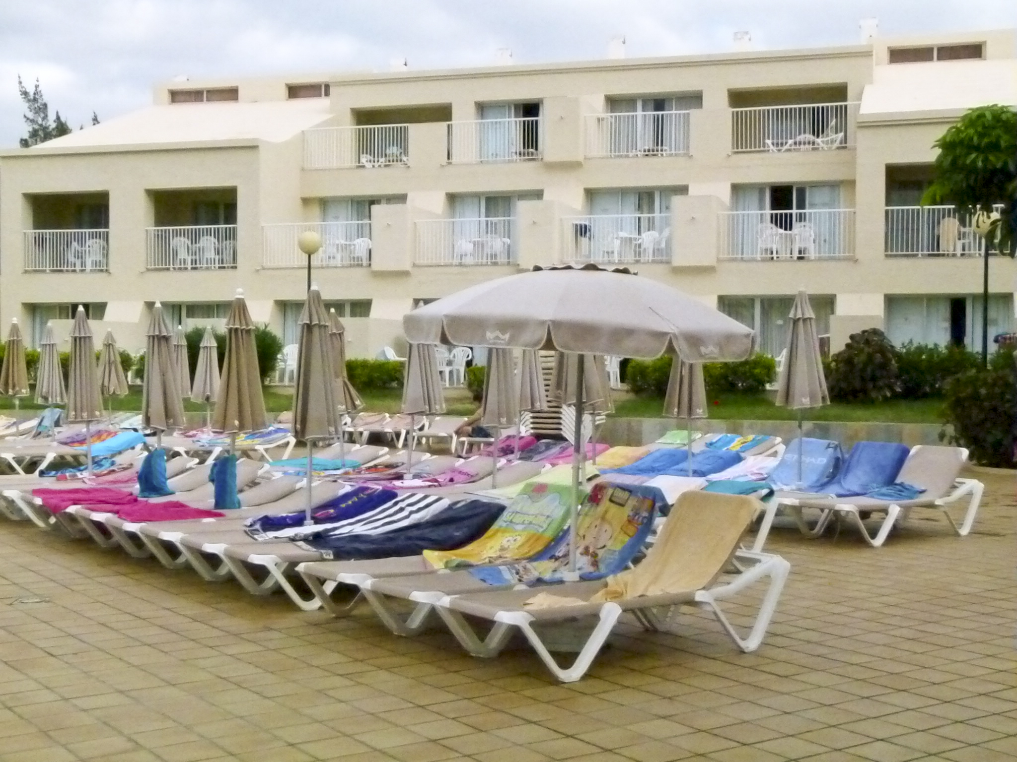 Allocated empty deck chairs, Riu Oliva Beach, Fuerteventura, Canary Islands, Spain